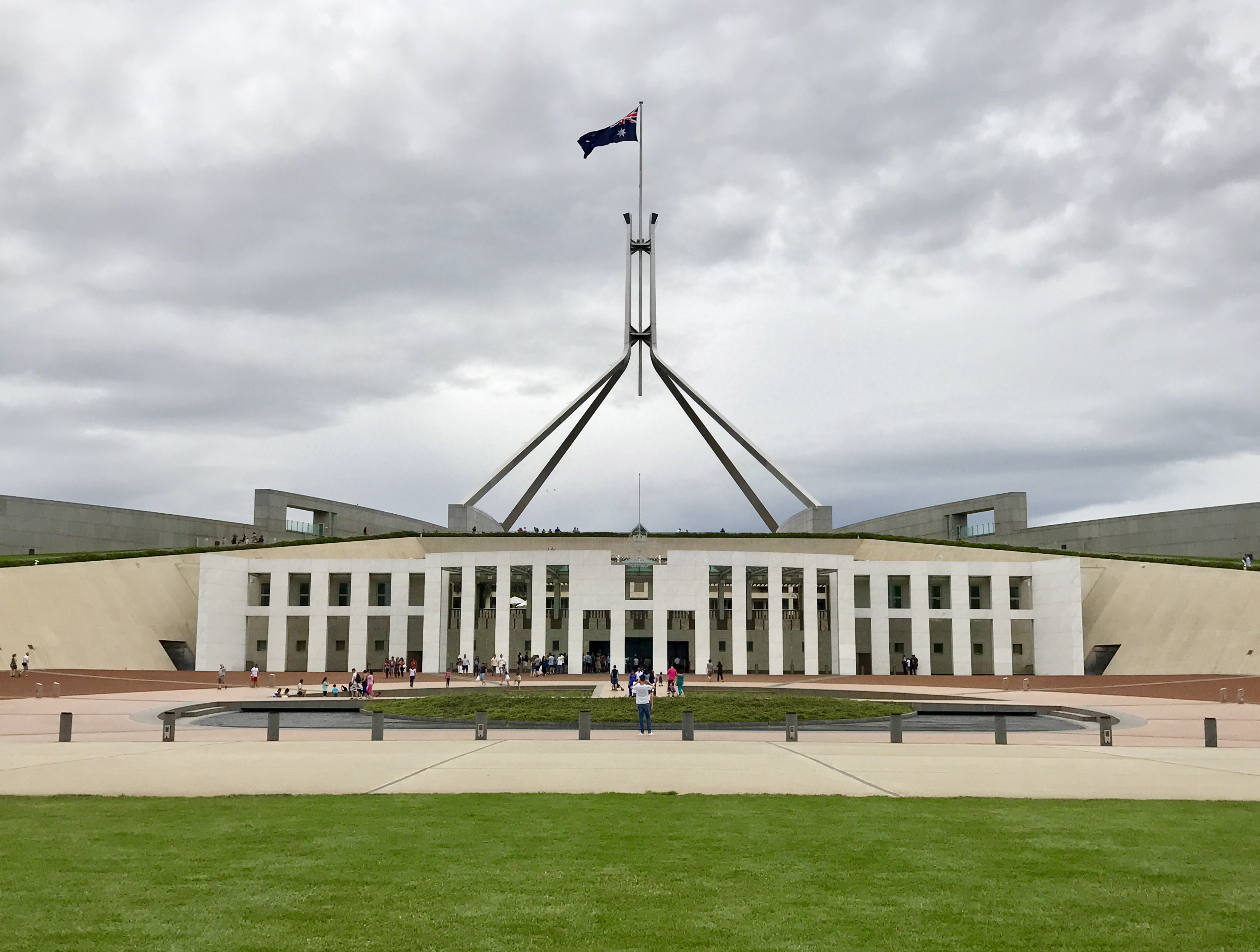 Parliament House, Canberra On a cloudy day in December 2016